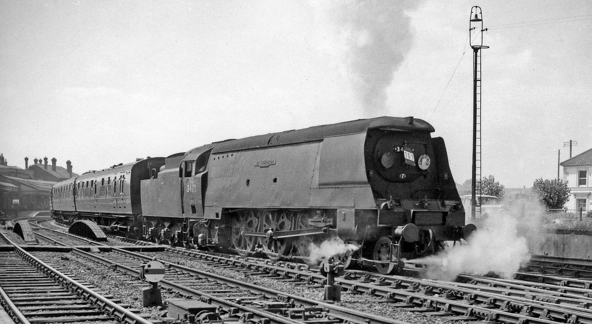 Up express leaving Salisbury station. View westward, towards Yeovil and Exeter on the ex-LSW Waterloo etc. - Exeter etc. main line, also Westbury etc. on the ex-GWR. The 10.00 from Plymouth (Friary) is bound for Portsmouth & Southsea (arr. 15.50) via Romsey and Southampton, headed by unrebuilt SR Bulleid Light Pacific No. 34110 '66 Squadron' (built 1/51 - the last one, withdrawn 11/63).